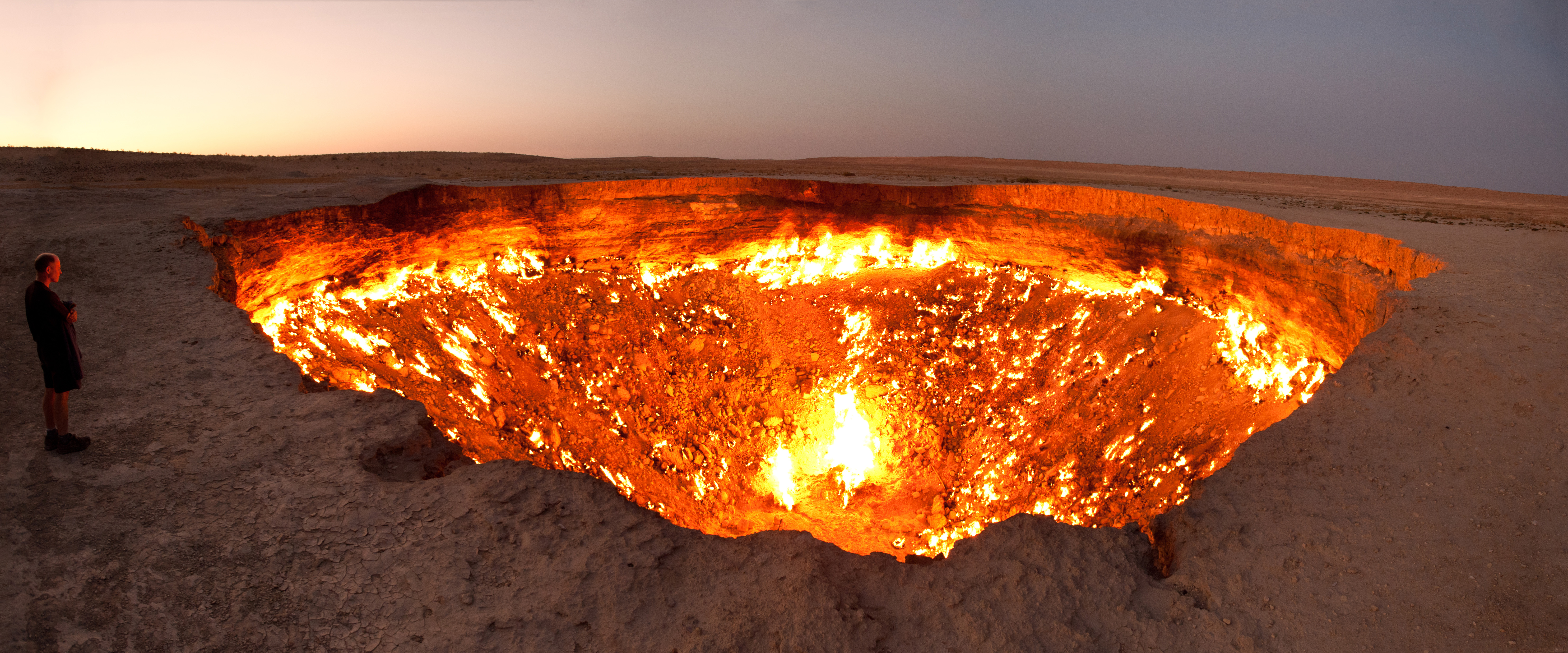 The Door to Hell, a burning natural gas field in Derweze, Turkmenistan. It´s actually bigger than it looks. Three 17 mm shots stitched together.